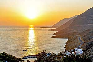 Sunset over Chora Sfakion, Sfakia, Crete, Greece